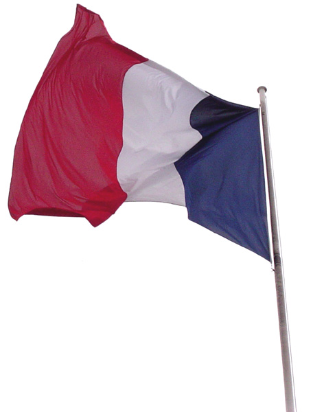 Tricolore in Paris, France (above the Elysée Palace)